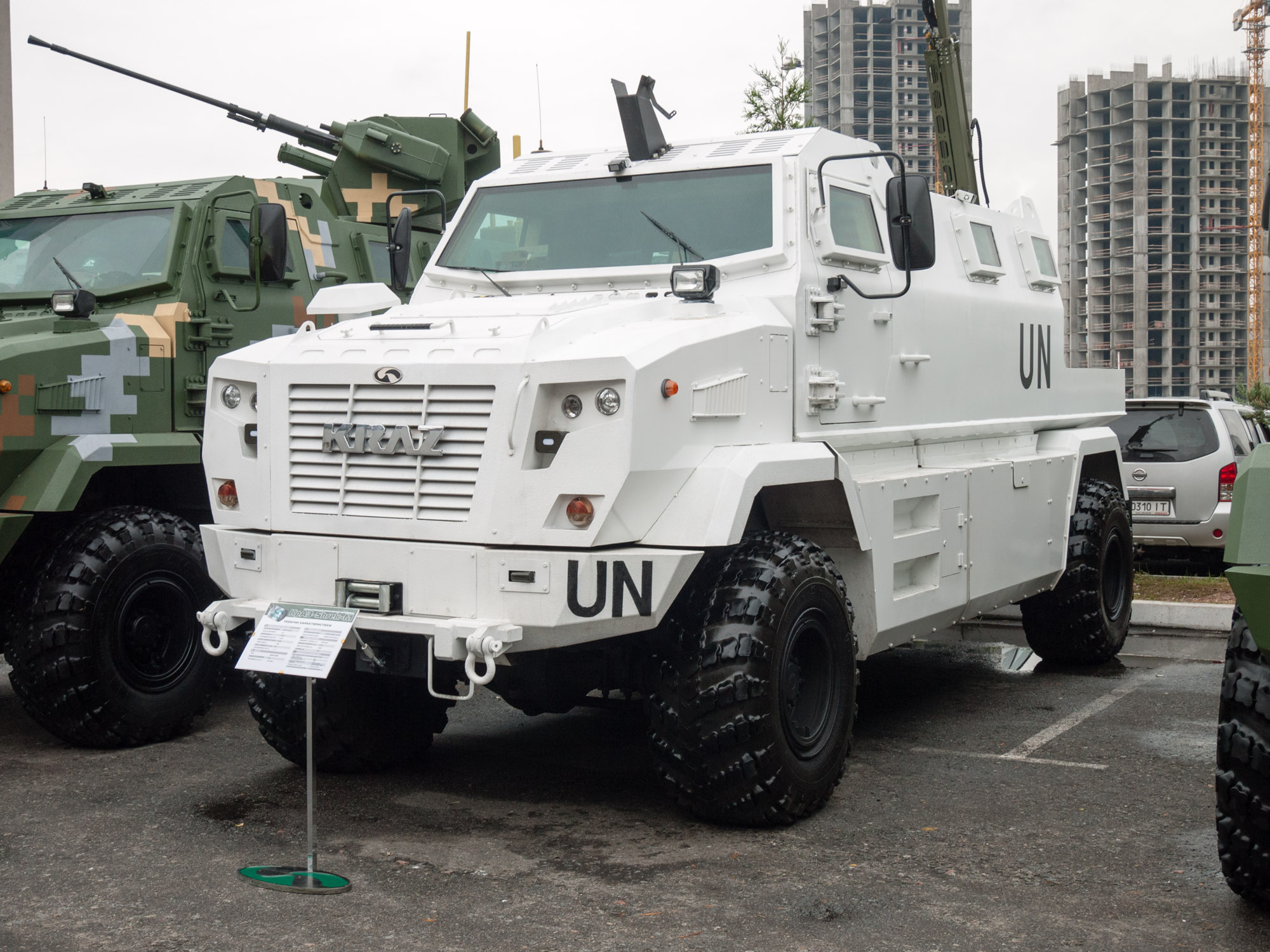 KrAZ Shrek-M (Ukraine)